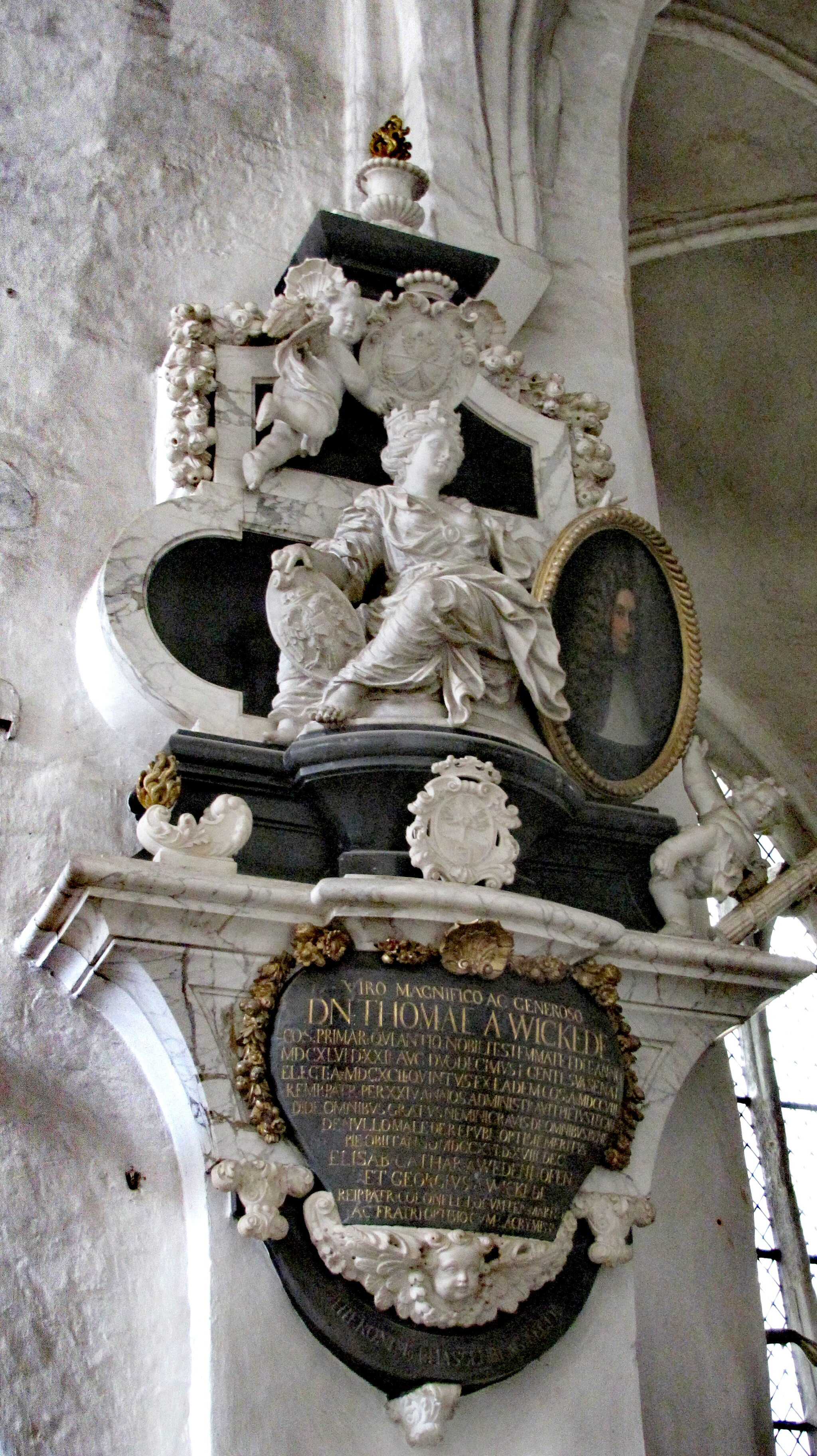 Epitaph for Thomas von Wickede (1646–1716) in St. Ägidien, Lübeck, by Hieronymus Hassenberg